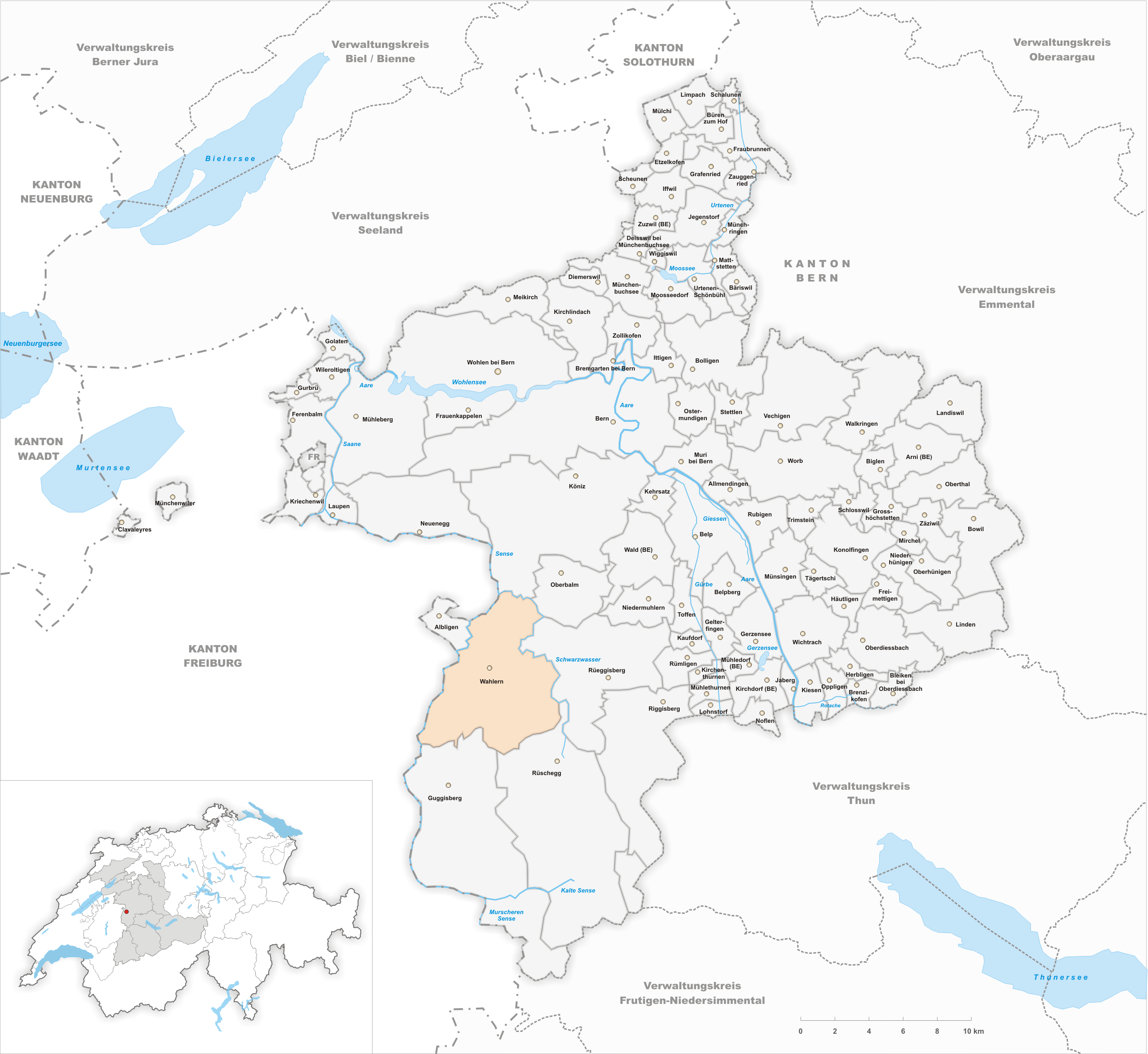 Municipality Wahlern